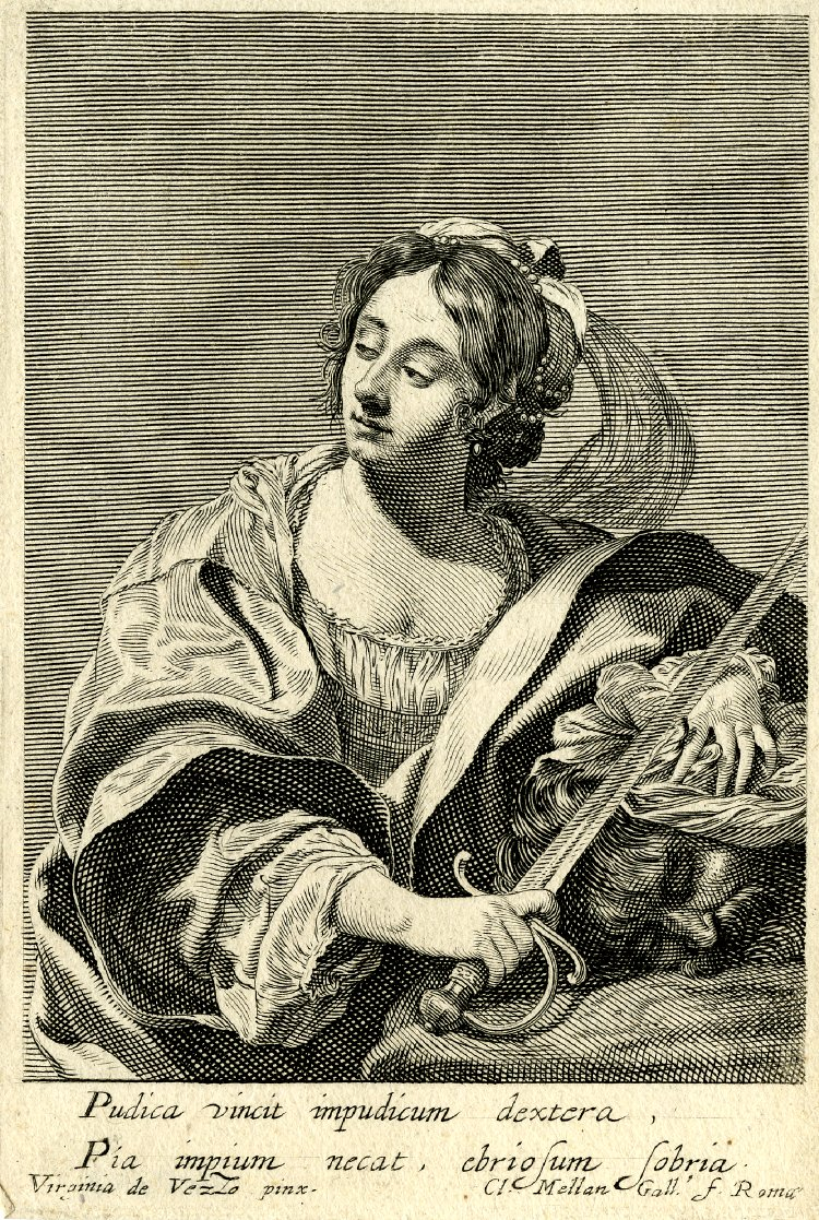 Engraving by Claude Mellan of the painting "Judith and the Head of Holofernes" (1624-1626) by Italian painter Virginia da Vezzo (wife of French painter Simon Vouet). This engraving establishes da Vezzo's authorship of the painting ("Virginia da Vezzo pinx" in lower left corner).